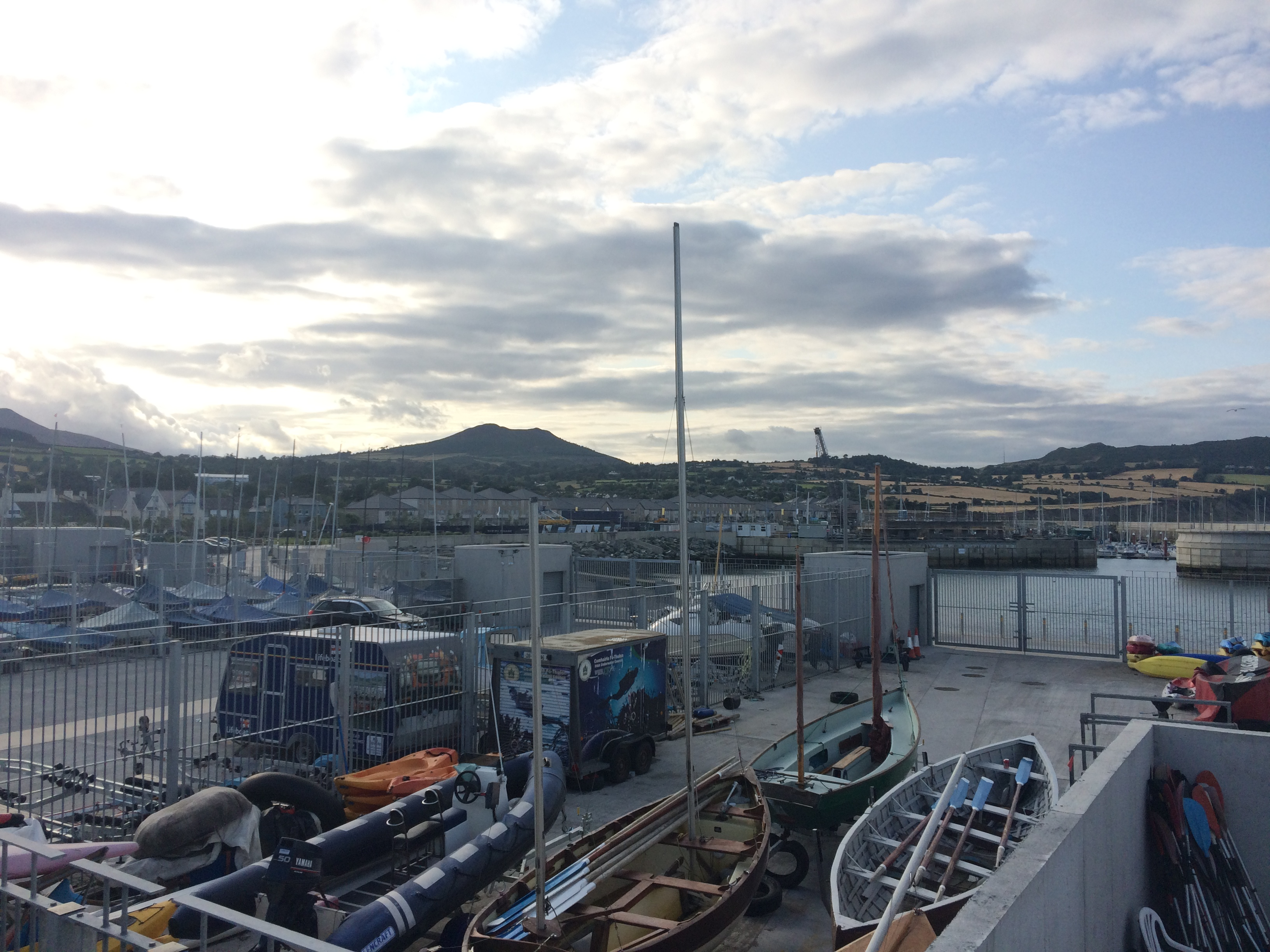 dd